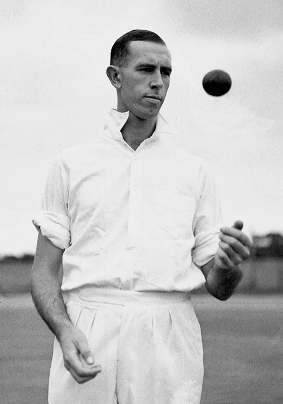 Cricket match personalities [Ted White]